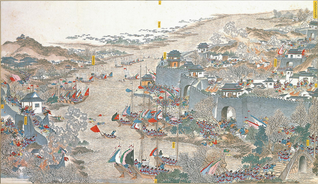 A scene of the Taiping Rebellion, 1850-1864